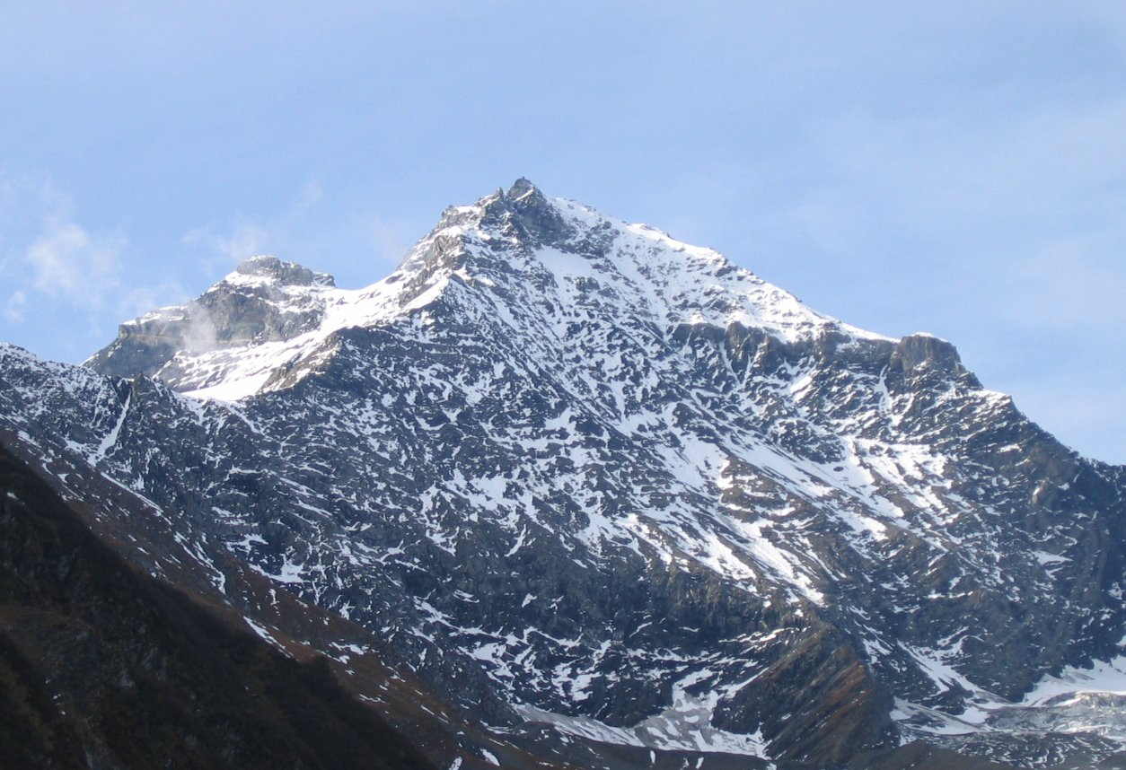 The Hausstock (alt 3158m) in the Glarus Alps, seen from Wichlen near Elm